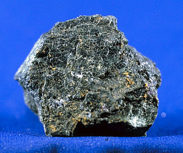 Augite